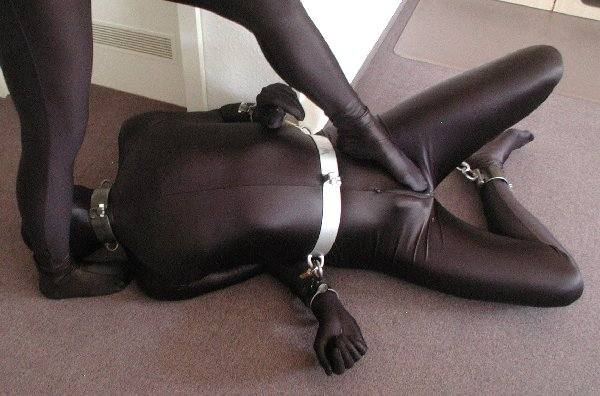 The picture shows a male sub in a metal cuffs set